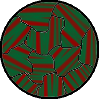 Magnetic domains (Weiss domains) in a piece of ferromagnetic material, revealed in a Kerr micrograph. The metal is composed of microcrystalline grains. The magnetic domains are the red and green stripes within each grain. Due to its magnetic anisotropy, the crystal lattice of each grain has an "easy" preferential direction of magnetization, so the domains within each grain are oriented parallel to this easy axis. The magnetization of red and green domains is in opposite directions parallel to the long axis of the domain.